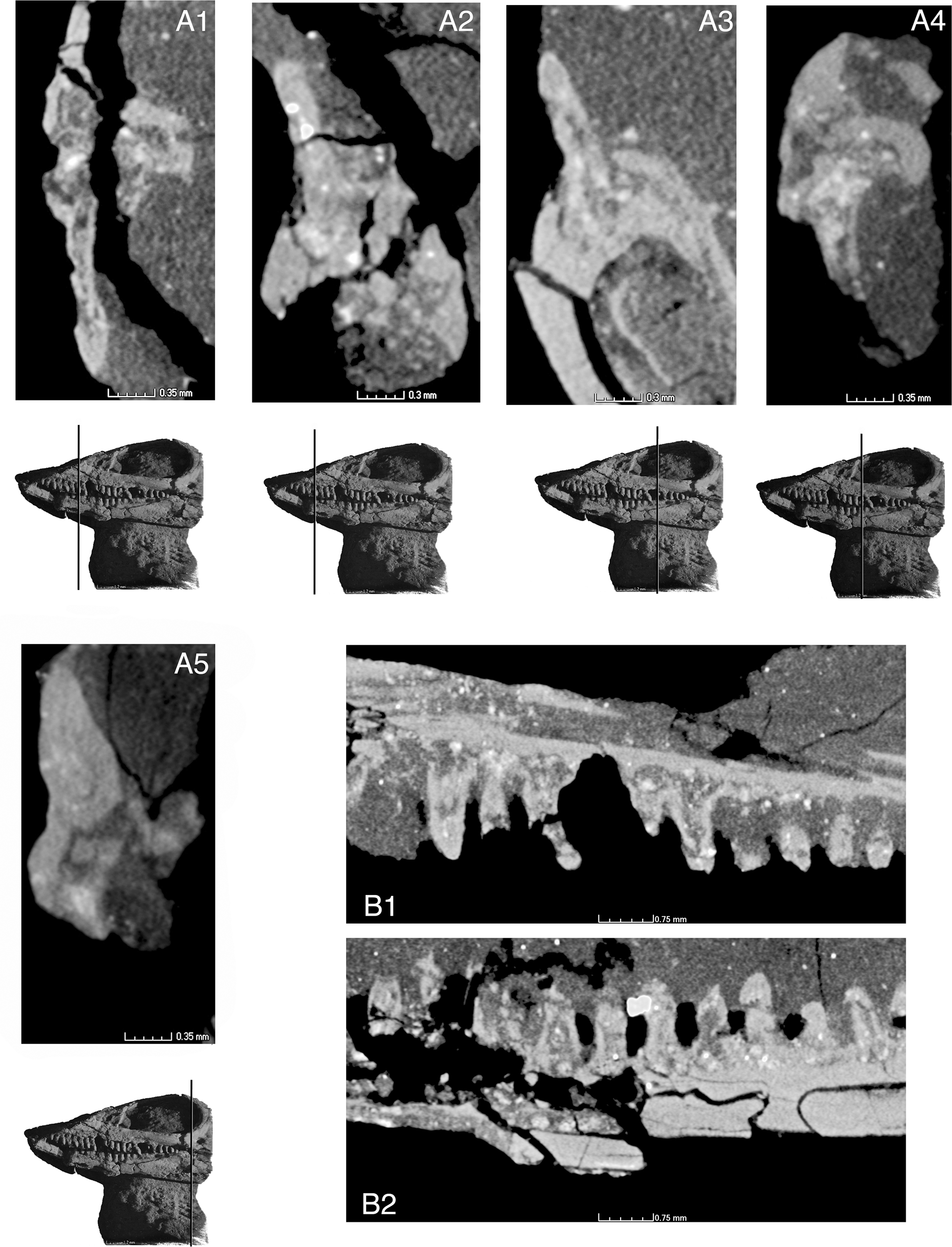 Tooth implantation in Elachistosuchus huenei MB.R. 4520 (holotype). Cross-sections of maxilla (A1 and A4; scale bars equal 0.35 mm) and dentary (A2, A3, and A5; scale bars equal 0.3 mm) teeth with respective planes of section indicated on the skull in left lateral view. B1-2, sagittal sections of B1, maxillary and B2, dentary tooth rows. Scale bars equal 0.75 mm.